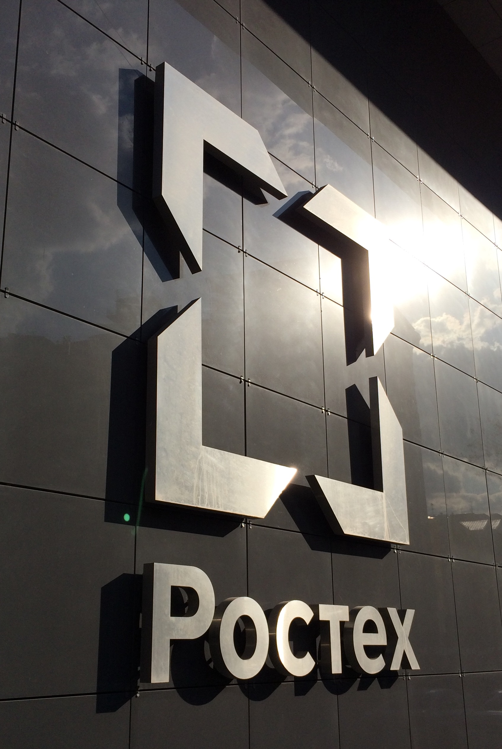 Rostekh in Moscow